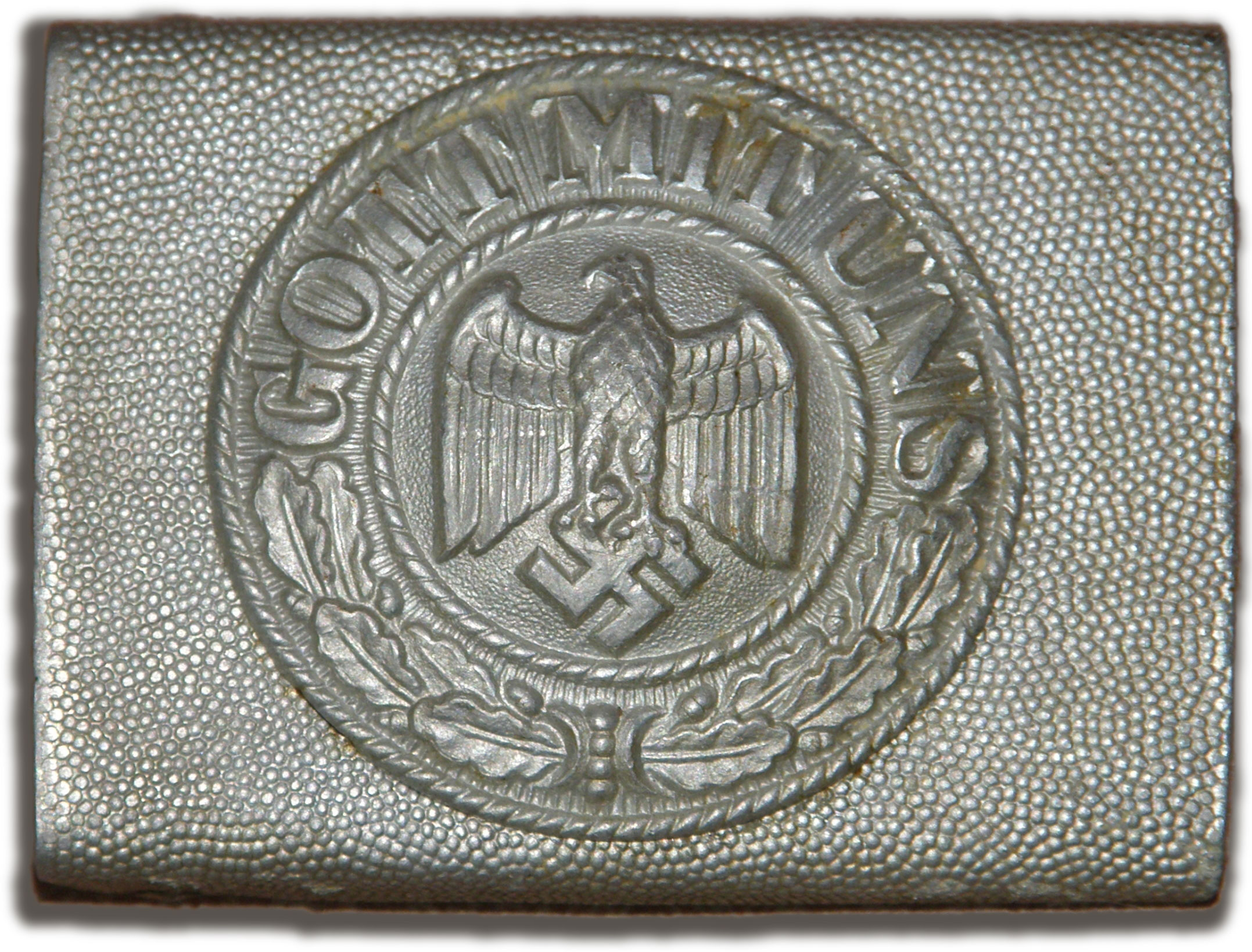 German military belt-buckle of WW2, with old Prussian GOTT MIT UNS slogan